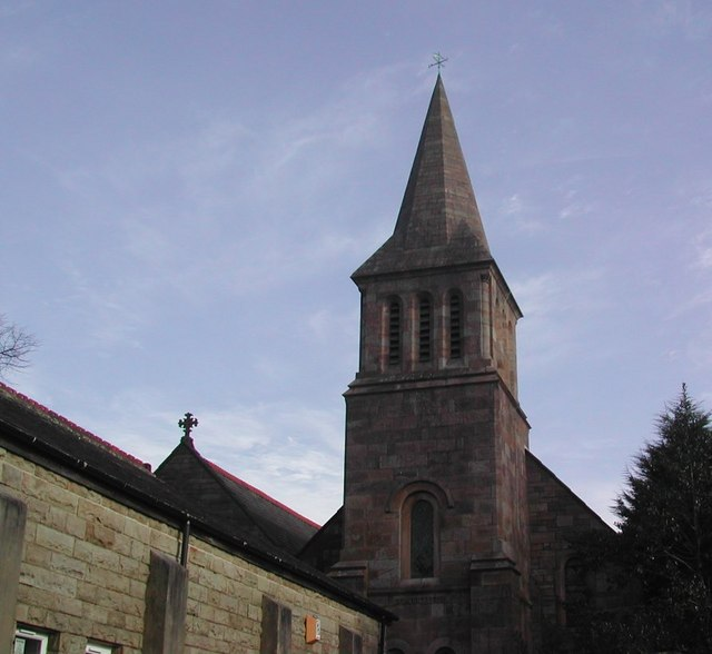 West tower and spire of St Andrew's parish church, Blackpool Road, Ashton-on-Ribble, Preston, Lancashire, seen from the southwest